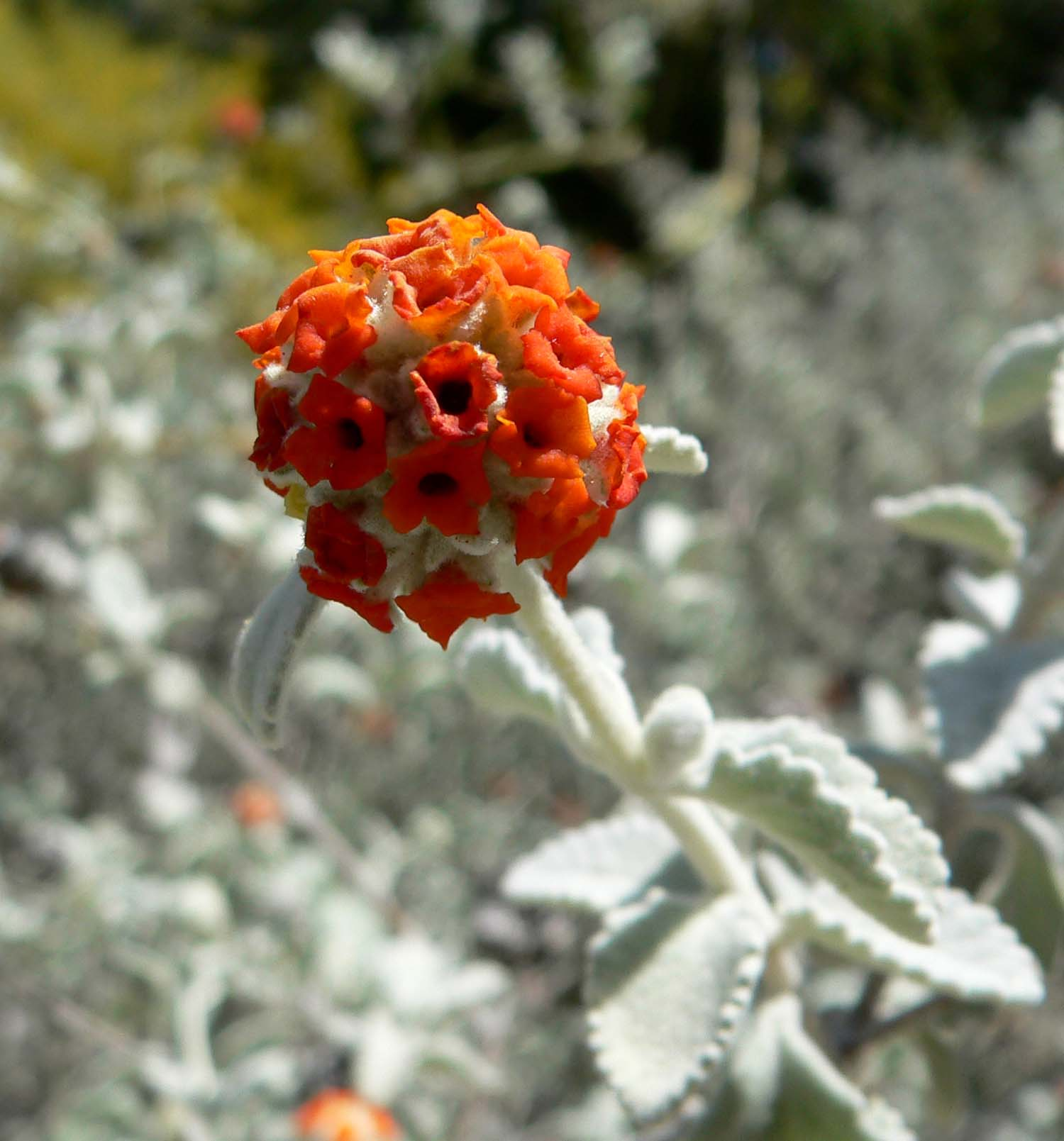 Photo of Buddleia marrubifolia (butterfly bush) at the Desert Demonstration Garden in Las Vegas, Nevada